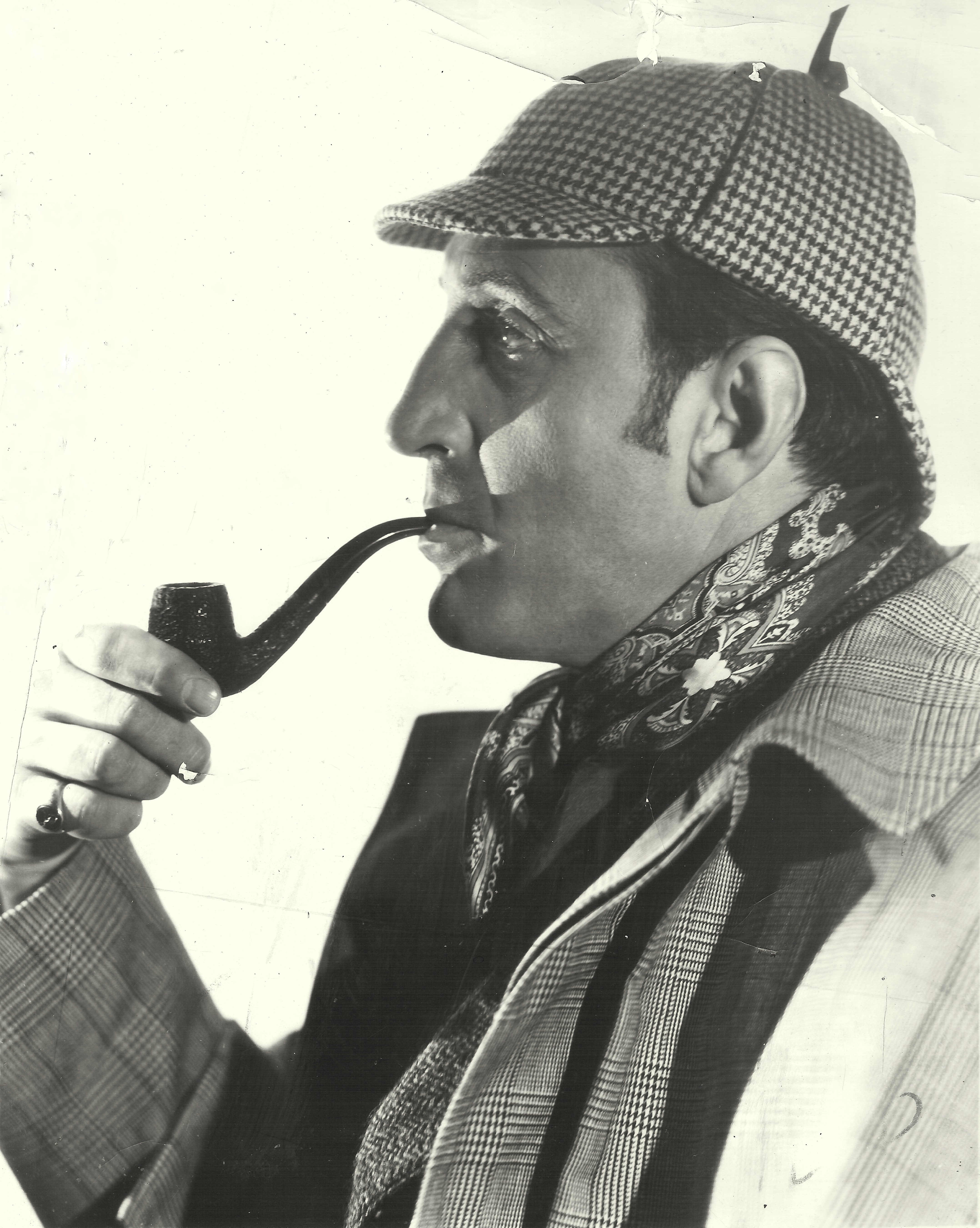 Basil Rathbone as Sherlock Holmes, in profile